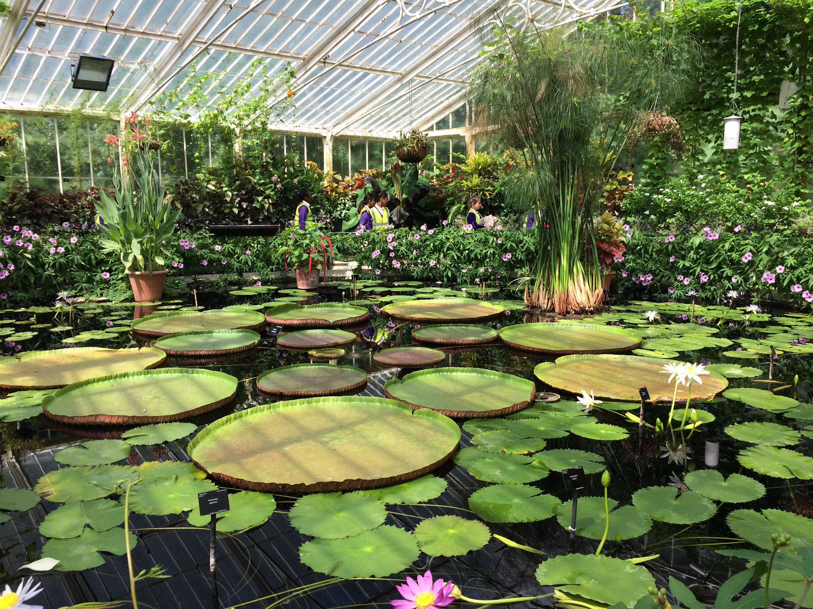 Interior of Lily House, Kew Gardens